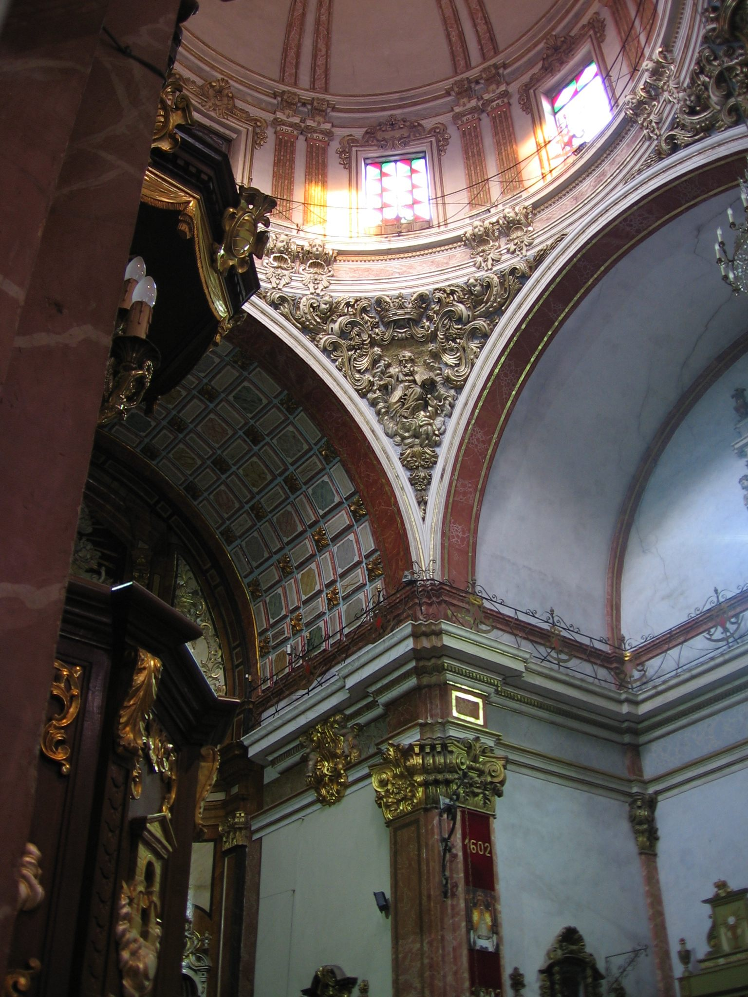 Interior de la Basilica de Aspe